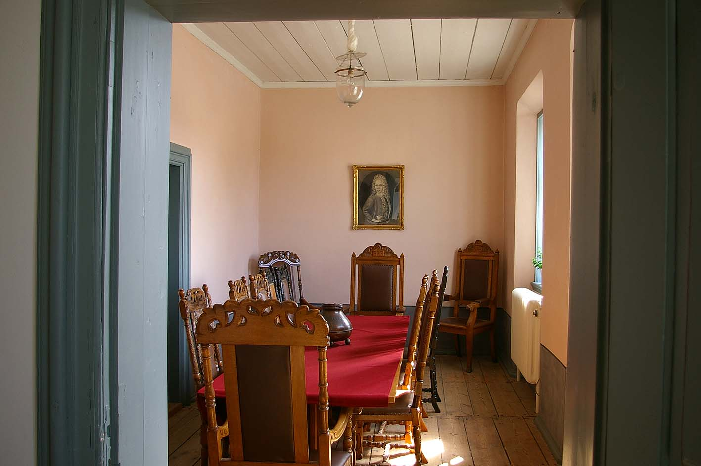 The town hall of Skanör Sweden from 1777.